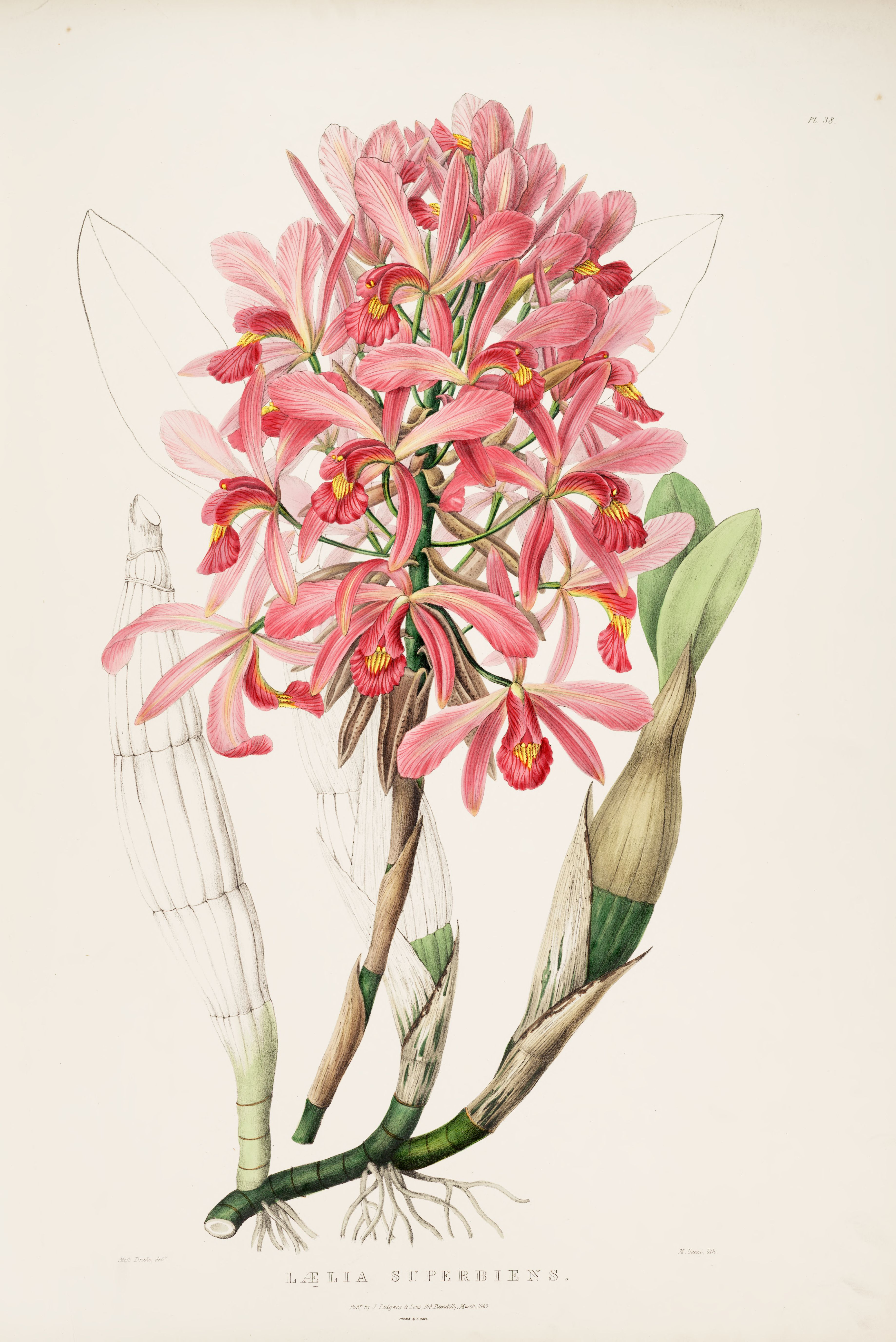 Laelia superbiens, a species named by John Lindley. It was included in the genus Schomburgkia, but now again in genus Laelia. This hand-retouched chromolithograph after a drawing by Miss S. A. Drake (fl. 1820s-1840s), is from James Bateman (1811-1897): "The Orchidaceae of Mexico and Guatemala", tab. 38